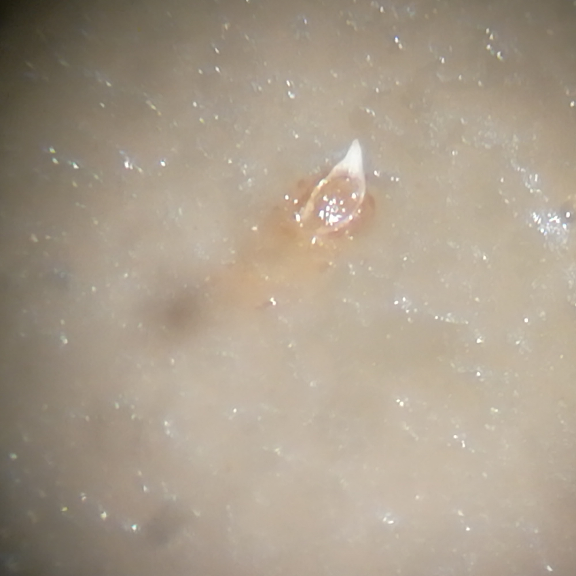 Egg laid by the insect Drosophila paulistorum.